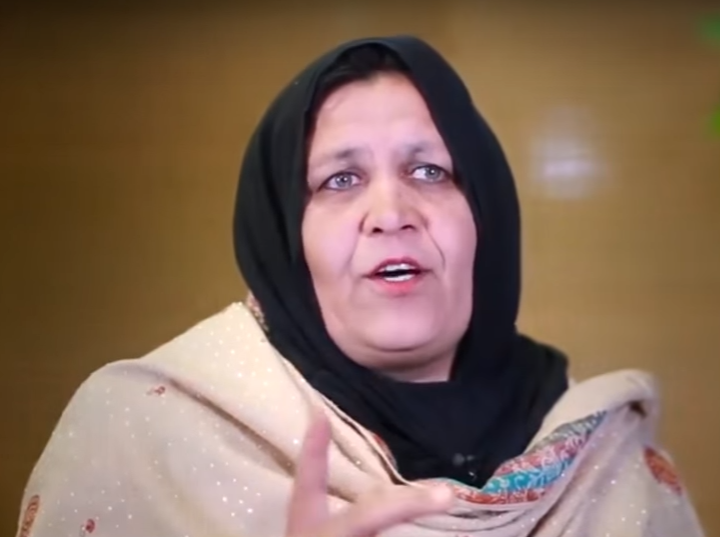 Professor Aqeela Asifi who won the 2015 UNHCR Nansen Refugee Award for her work with refugees - these are screengrabs from a freely licensed youtube